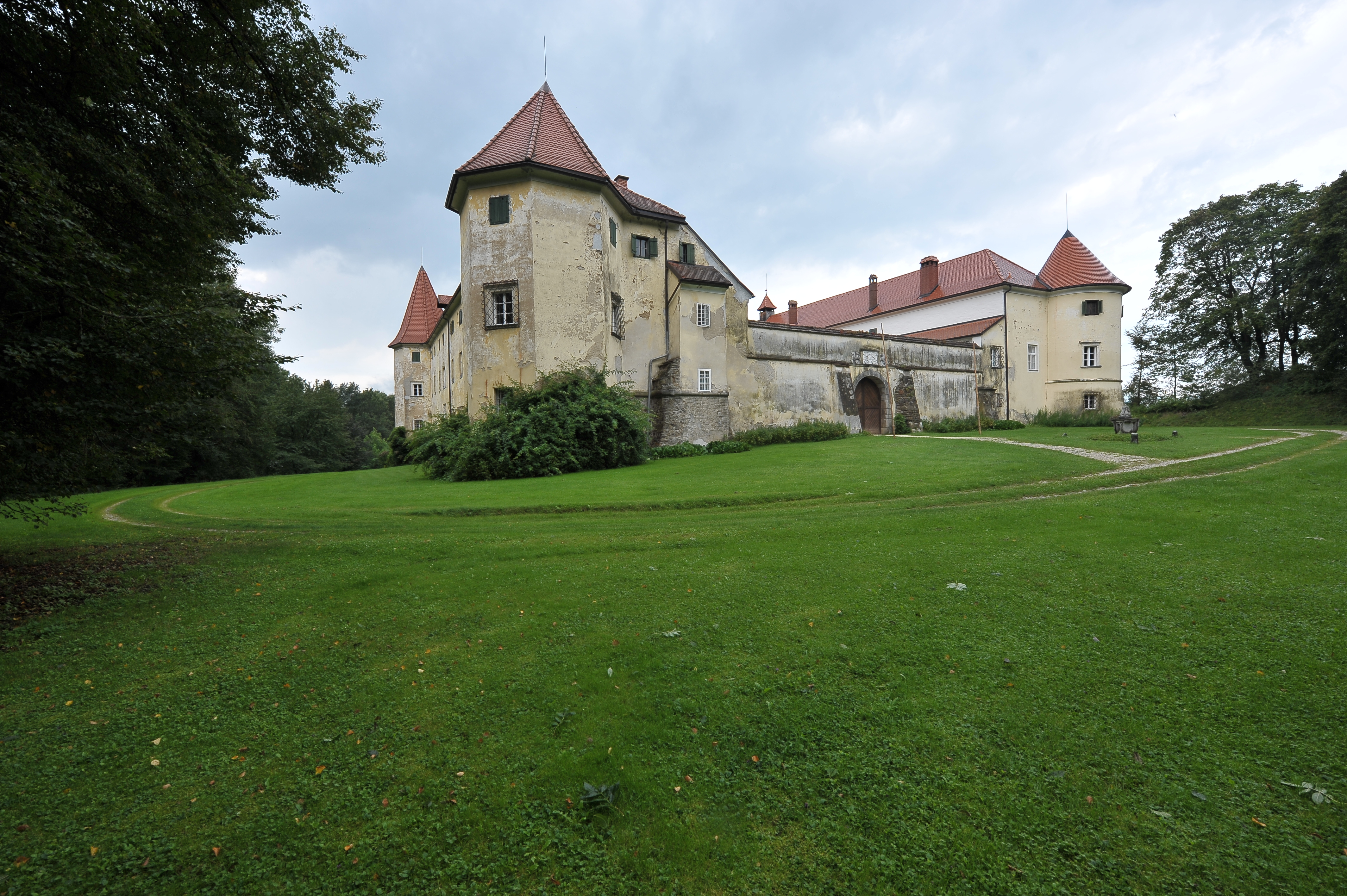 East view at castle Reideben at Reideben #1, municipality Wolfsberg, district Wolfsberg, Carinthia / Austria / EU